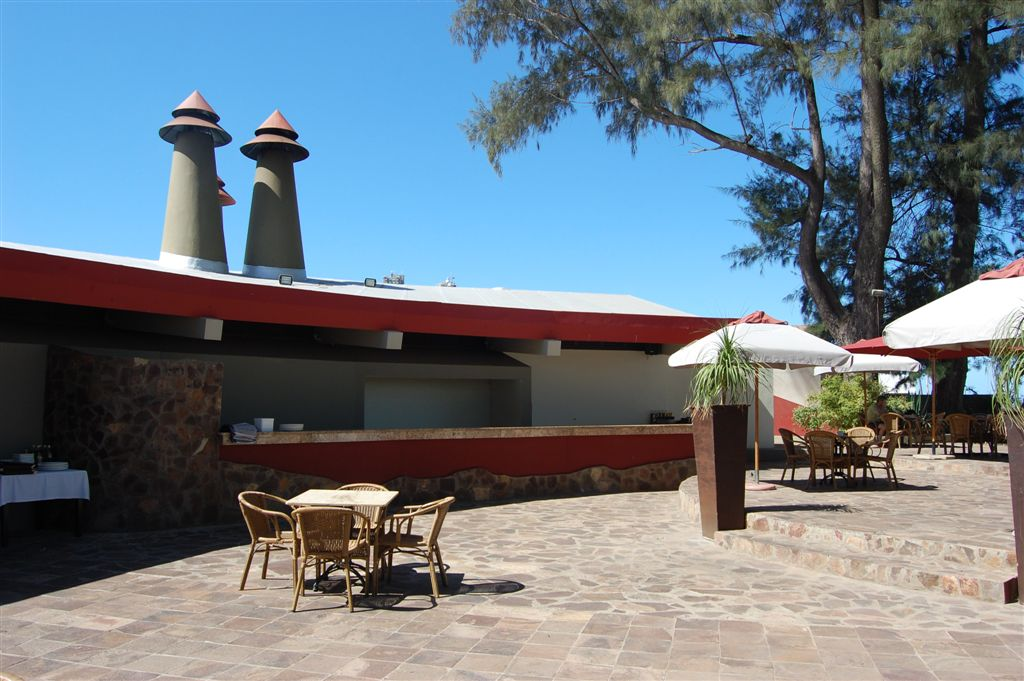 Zambi Restaurant in Maputo, Mozambique